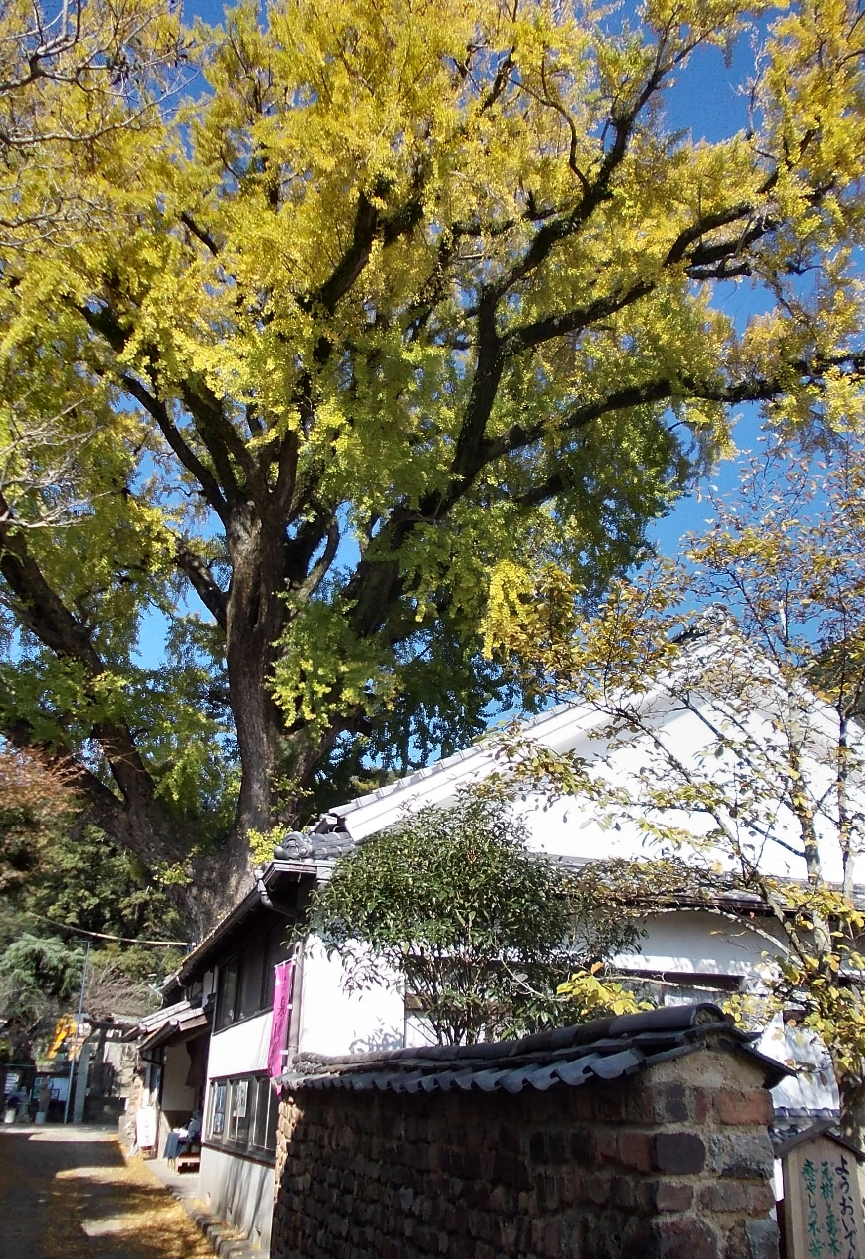 A big ginkgo tree in the Izumiyama area of Arita Town, Saga, Japan.